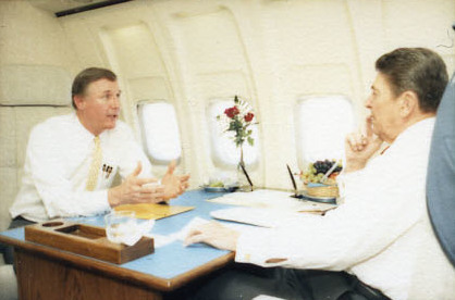 President Reagan, Dan Burton (2-5) President Reagan, Robert Orr, John Mutz, Steven Beering, Linley Pearson, Paul Mannweiler, Sonya Margerum, Dan Burton (6-21)